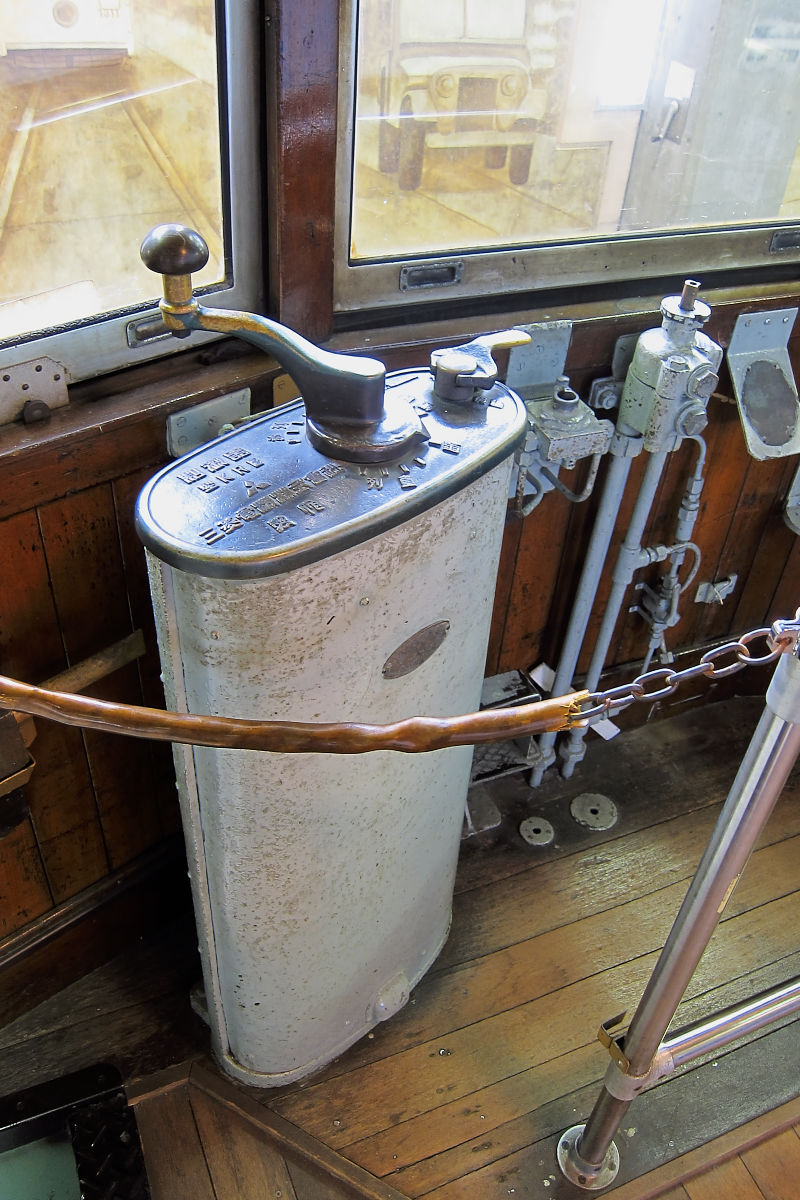 Dick Kerr type direct controller by Mitsubishi Electric Corp.